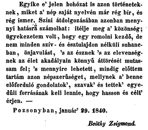 Prolog of a work of Beöthy Zsigmond